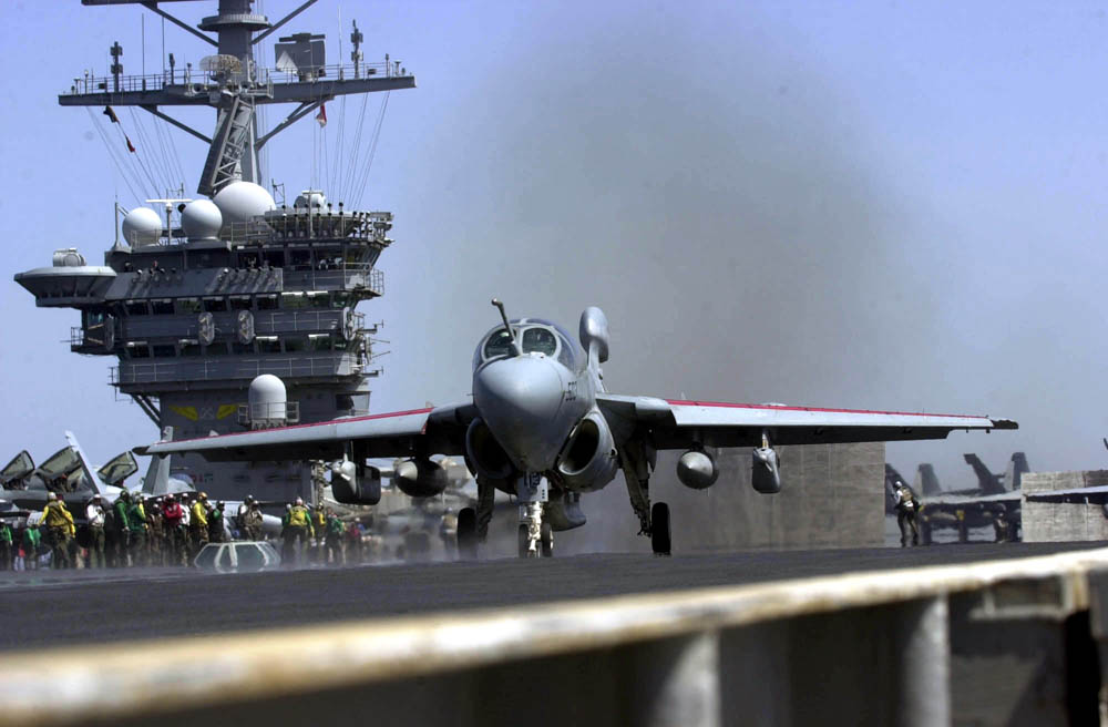 030418-N-2385R-010 Arabian Gulf (Apr. 18, 2002) -- An EA-6B Prowler assigned to the Black Ravens of Electronic Attack Squadron One Three Five (VAQ-135) launches from one of four steam driven catapults on the flight deck of USS Nimitz (CVN 68). Nimitz and her embarked Carrier Air Wing Eleven (CVW-11) are on deployment conducting combat missions in support of Operation Iraqi Freedom. Operation Iraqi Freedom is the multi-national coalition effort to liberate the Iraqi people, eliminate Iraq's weapons of mass destruction, and end the regime of Saddam Hussein. U.S. Navy photo by Photographer's Mate 3rd Class Yesenia Rosas. (RELEASED)